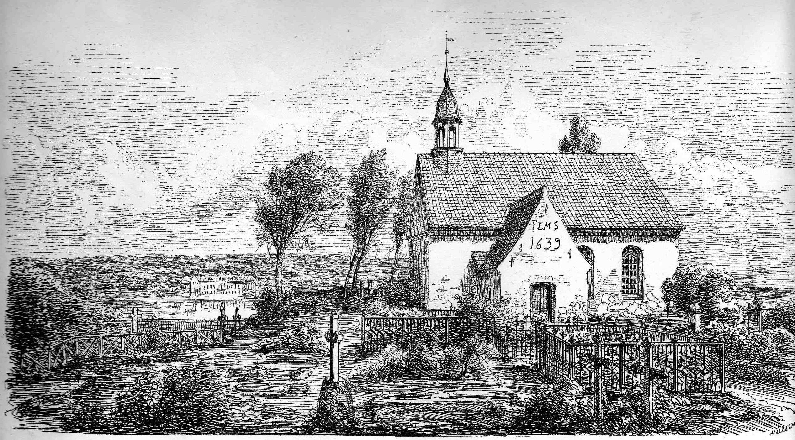 Scanned by myself from a copy of the old book in 2007. The book was graciously lent to me by Det Kongelige Garnisonsbibliotek.